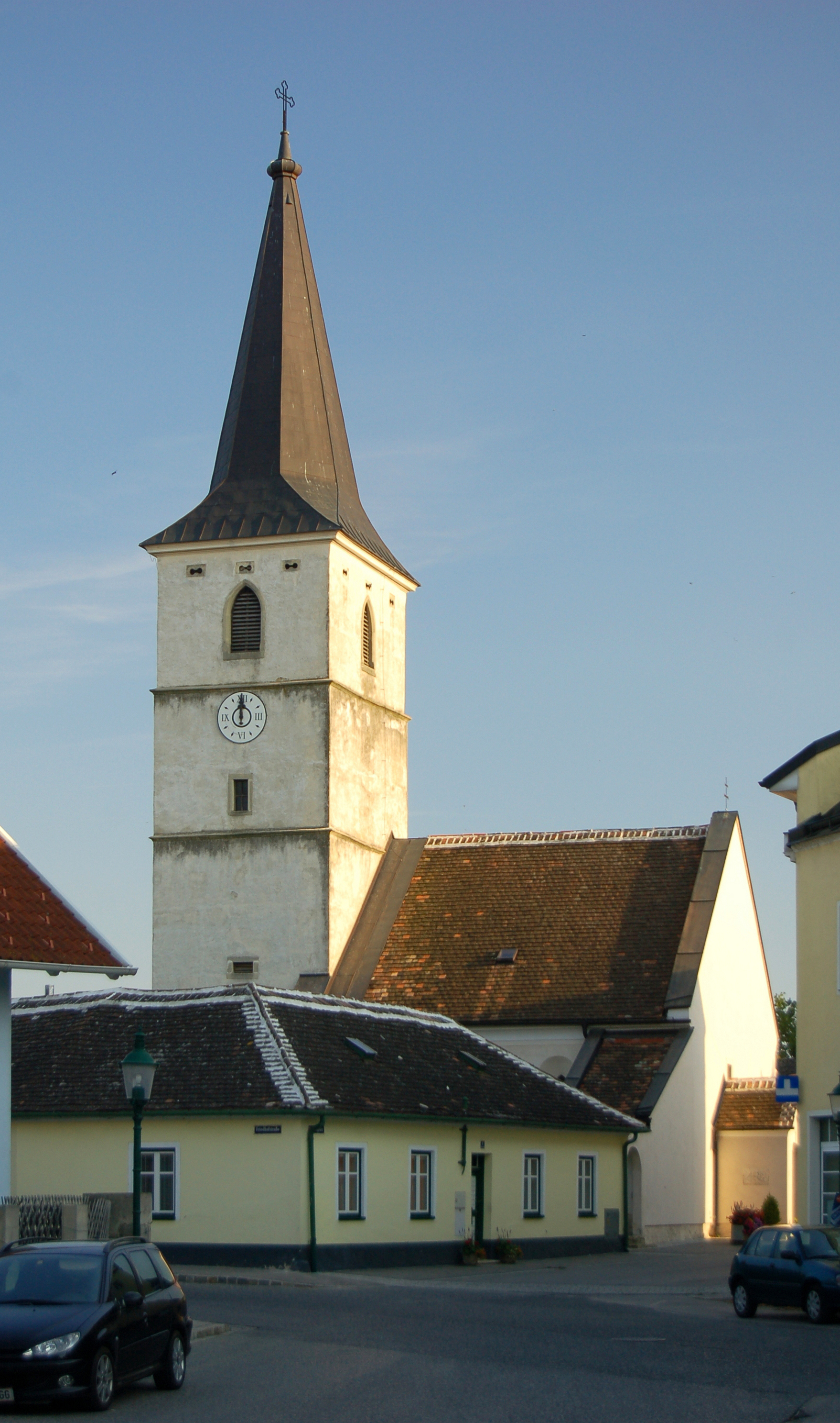 The parish church St. Peter and Paul in Weigelsdorf, municipality of Ebreichsdorf, Lower Austria, is a cultural heritage monument.